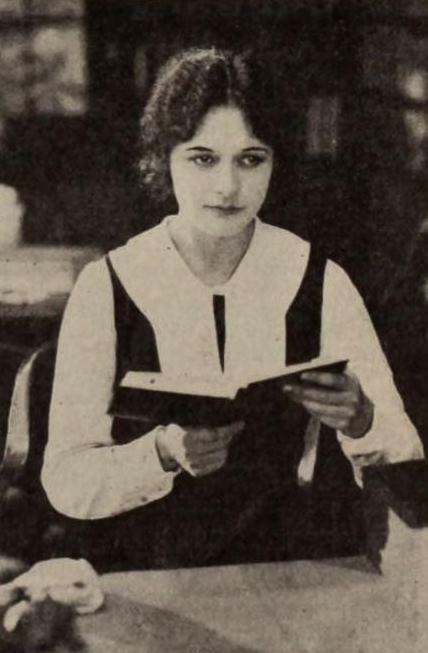 Still from the American drama film The Truth About Husbands (1920) with Anna Lehr, on page 59 of the September 18, 1920 Exhibitors Herald.